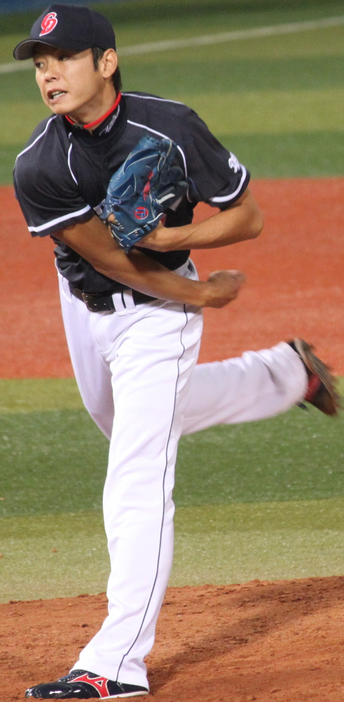 Takuya Asao, pitcher of the Chunichi Dragons, at Yokohama Stadium.